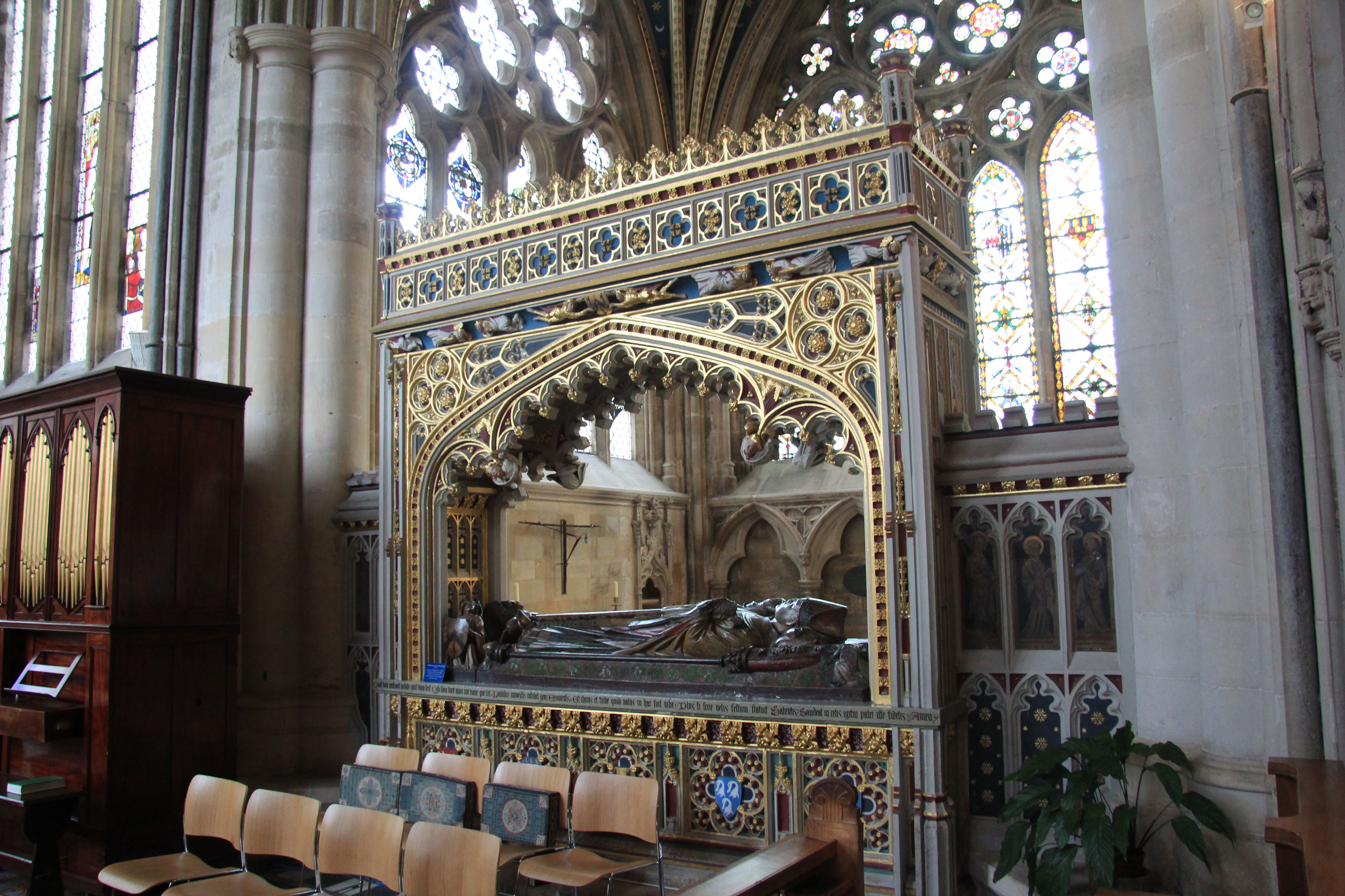 Interior of Exeter Cathedral, Devon, monument to Walter Bronescombe (d.1280), Bishop of Exeter. On a shield held by an angel at the feet of the bishop (and also at the top of the arch on a shield held by two angels) are shown the arms of Branscombe: Or, on a chevron sable three quatrefoils or two keys in chief argent a sword in base argent (per Pole, Sir William (d.1635), Collections Towards a Description of the County of Devon, Sir John-William de la Pole (ed.), London, 1791, p.473). Also visible (base, 2nd from right) are the arms of Edmund Lacey (died 1455), Bishop of Exeter 1420-55: Azure, three shoveler's heads erased argent